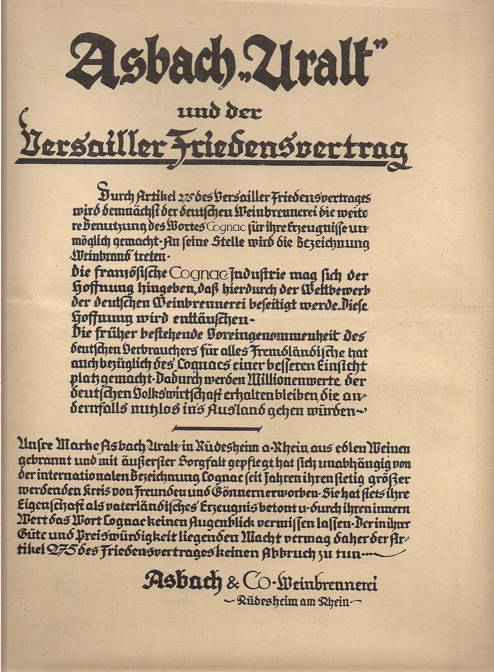 Asbach Uralt advert from 1921 The text reads as follows: Asbach „Uralt” und der Versailler Friedensvertrag Durch Artikel 275 des Versailler Friedensvertrages wird demnächst der deutschen Weinbrennerei die weite= re Benutzung des Wortes Cognac für ihre Erzeugnisse un= möglich gemacht. An seine Stelle wird die Bezeichnung Weinbrand treten. die französische Cognac Industrie mag sich der Hoffnung hingeben, daß hierdurch der Wettbewerb der deutschen Weinbrennerei beseitigt werde. Diese Hoffnung wird enttäuschen. Die früher bestehende Voreingenommenheit des deutschen Verbrauchers für alles Fremdländische hat auch bezüglich des Cognacs einer besseren Einsicht platzgemacht [sic]. Dadurch werden Millionenwerte der deutschen Volkswirtschaft erhalten bleiben, die an= dernfalls nutzlos ins Ausland gehen würden. Unsre [sic] Marke Asbach 'Uralt' in Rüdesheim a. Rhein aus edlen Weinen gebrannt und mit äußerster Sorgfalt gepflegt, hat sich unabhängig von der internationalen Bezeichnung Cognac seit Jahren ihren stetig größer werdenden Kreis von Freunden und Gönnern erworben. Sie hat stets ihre Eigenschaft als vaterländisches Erzeugnis betont u. durch ihren innern [sic] Wert das Wort Cognac keinen Augenblick vermissen lassen. Der in ihrer Güte und Preiswürdigkeit liegenden Macht vermag daher der Ar= tikel 275 des Friedensvertrages keinen Abbruch zu tun. Asbach & Co. Weinbrennerei ~Rüdesheim am Rhein~